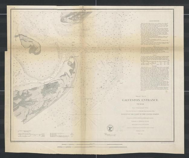 Map showing eastern entrance to Galveston Bay and the east end of Galveston Island. Survey between 1848 and 1852, map published 1853.